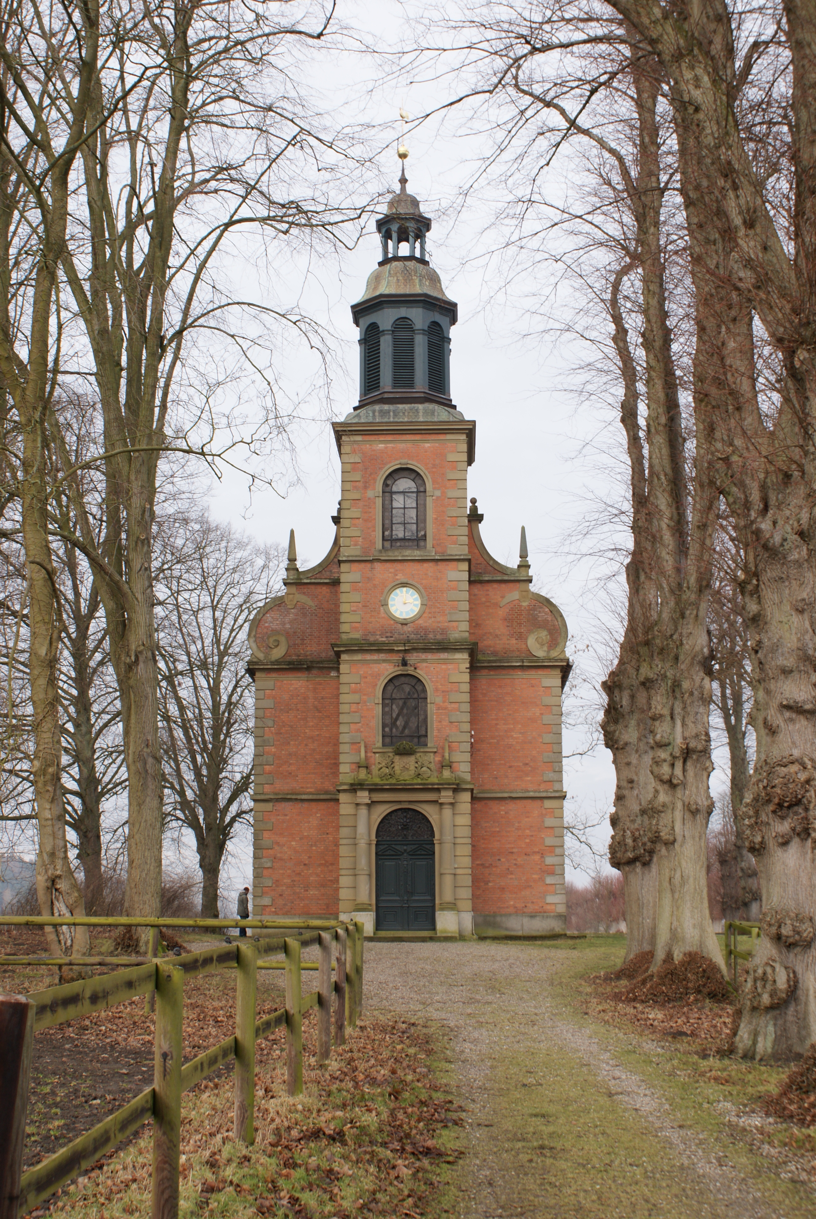 Chapel on Panker Manor